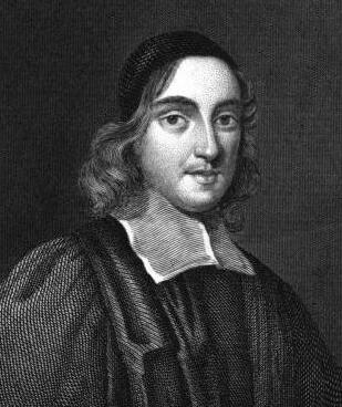 William Owtram Archbishop of York 17Century